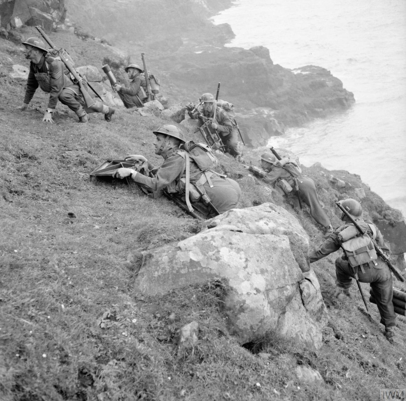 The British Army in the United Kingdom 1939-45 Men of 5th Oxfordshire and Buckinghamshire Light Infantry scramble up cliffs during 'toughening up' exercises by the sea at Castlerock in Northern Ireland, 14 July 1941.